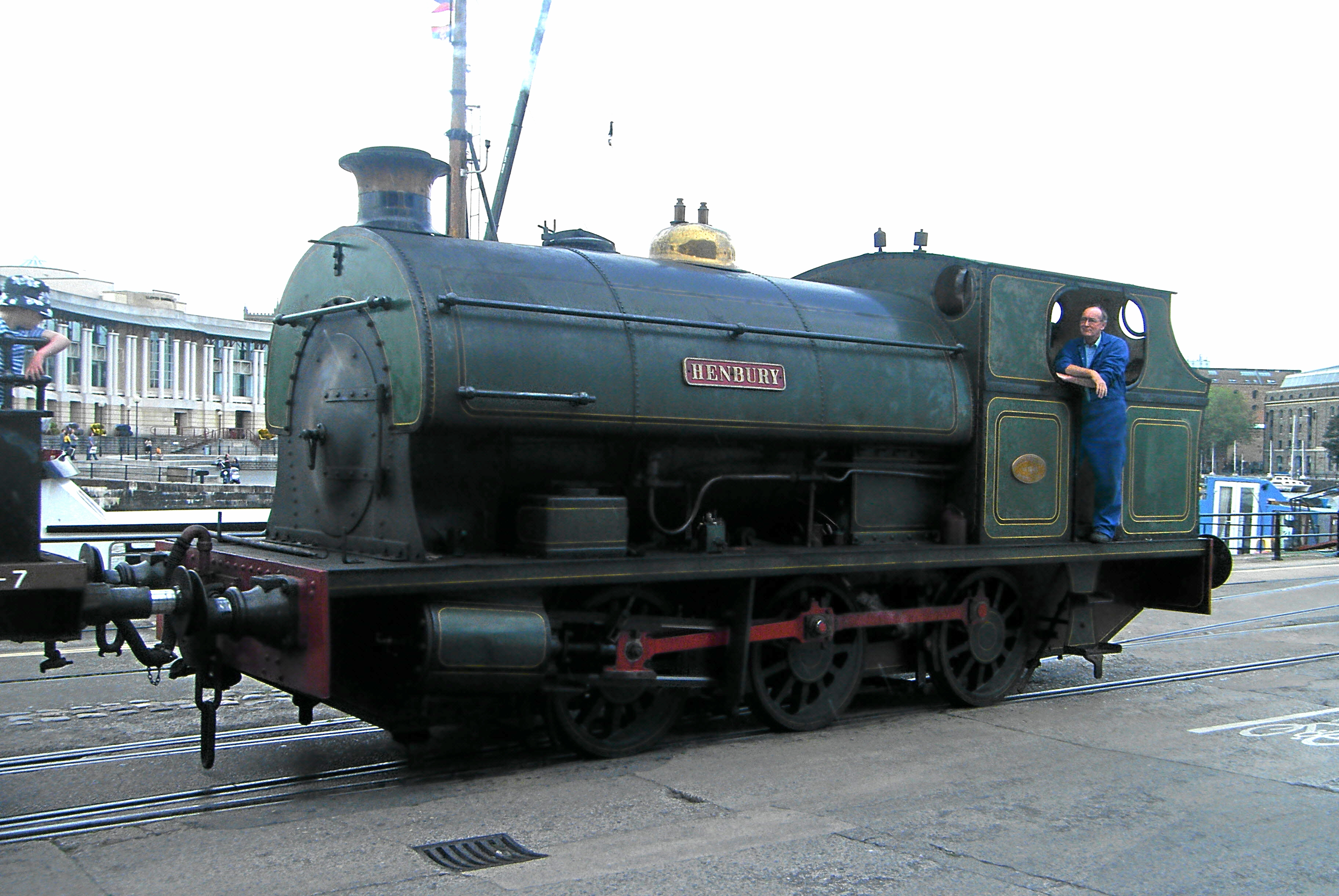 Peckett Type "FA" 0-6-0ST No.1940 of 1937 "Henbury" of the Port of Bristol Authority at Bristol Harbour, 07/12.